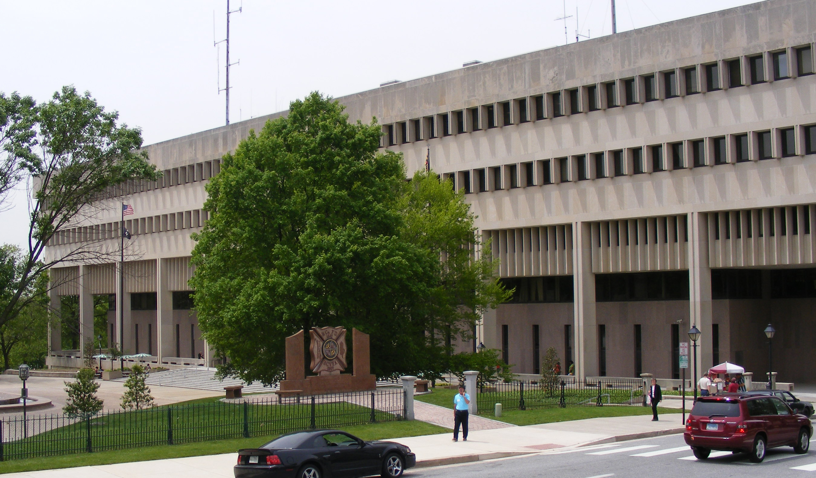 Balto. County Courts Bldg., Bosley Avenue, Towson, Maryland (1970)